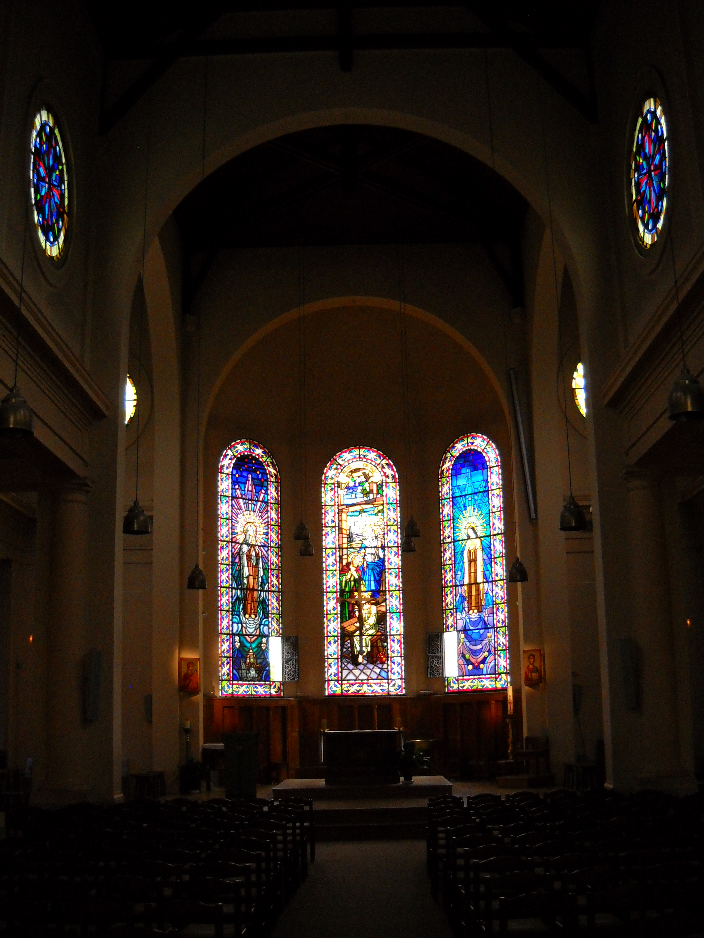 Sainte-Cécile catholic church, in Boulogne-Billancourt, Hauts-de-Seine, France.